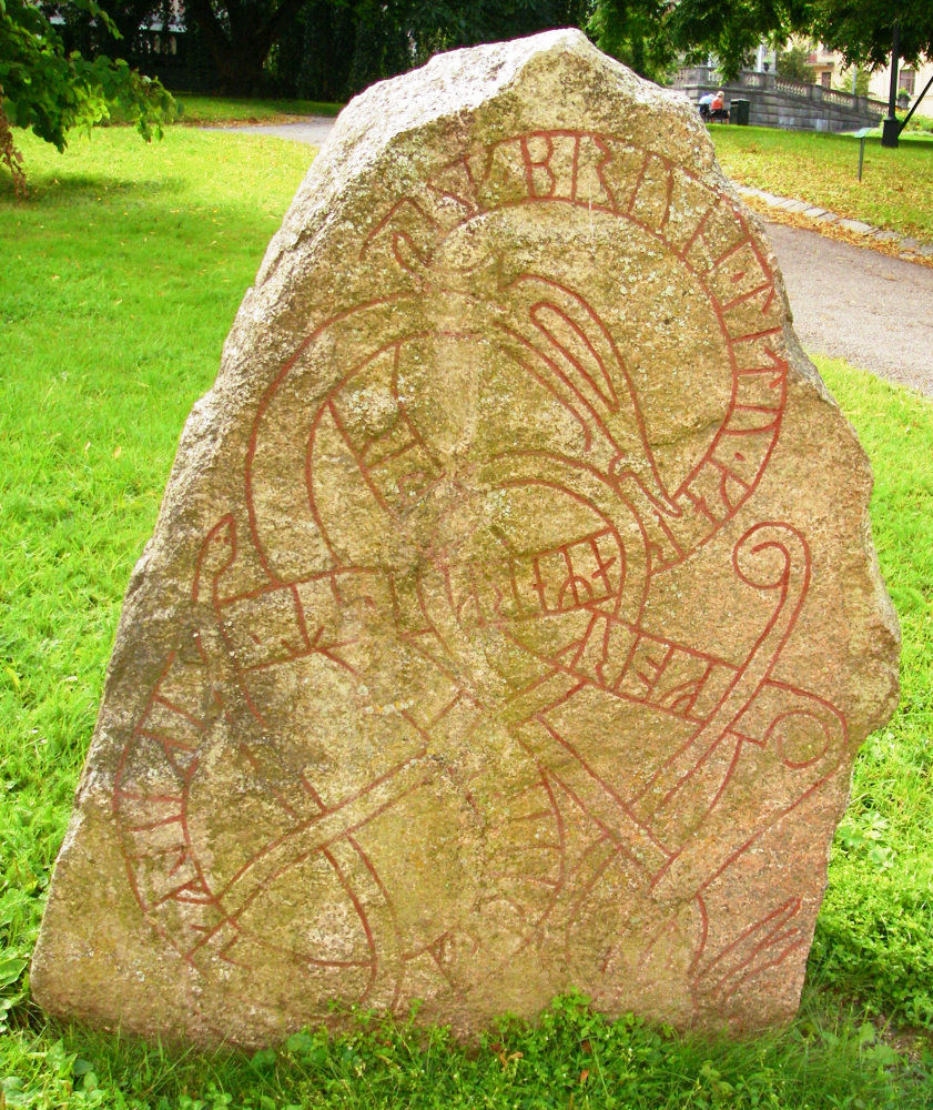 runic stone Upplands runinskrifter 939